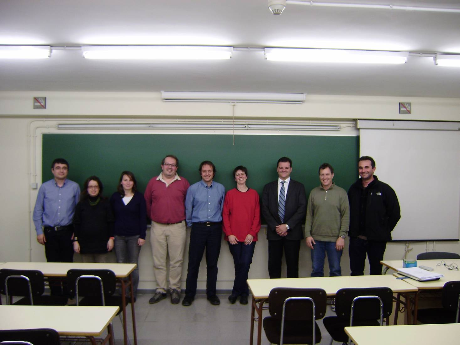 Teaching Committee 43rd CIHS